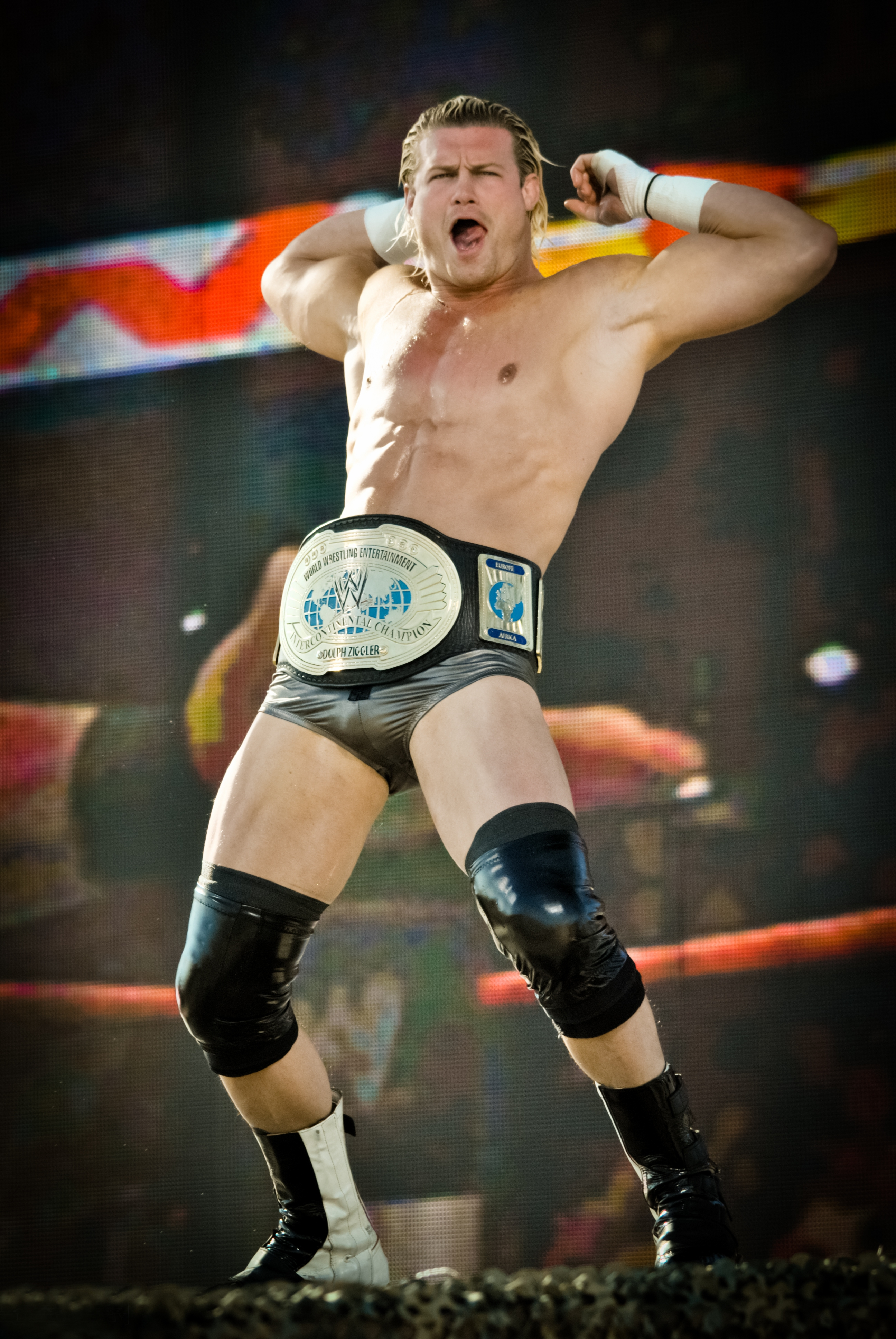 Dolph Ziggler as the Intercontinental Champion at WWE's 2010 Tribute to the Troops show in Fort Hood, Texas, on December 11, 2010.